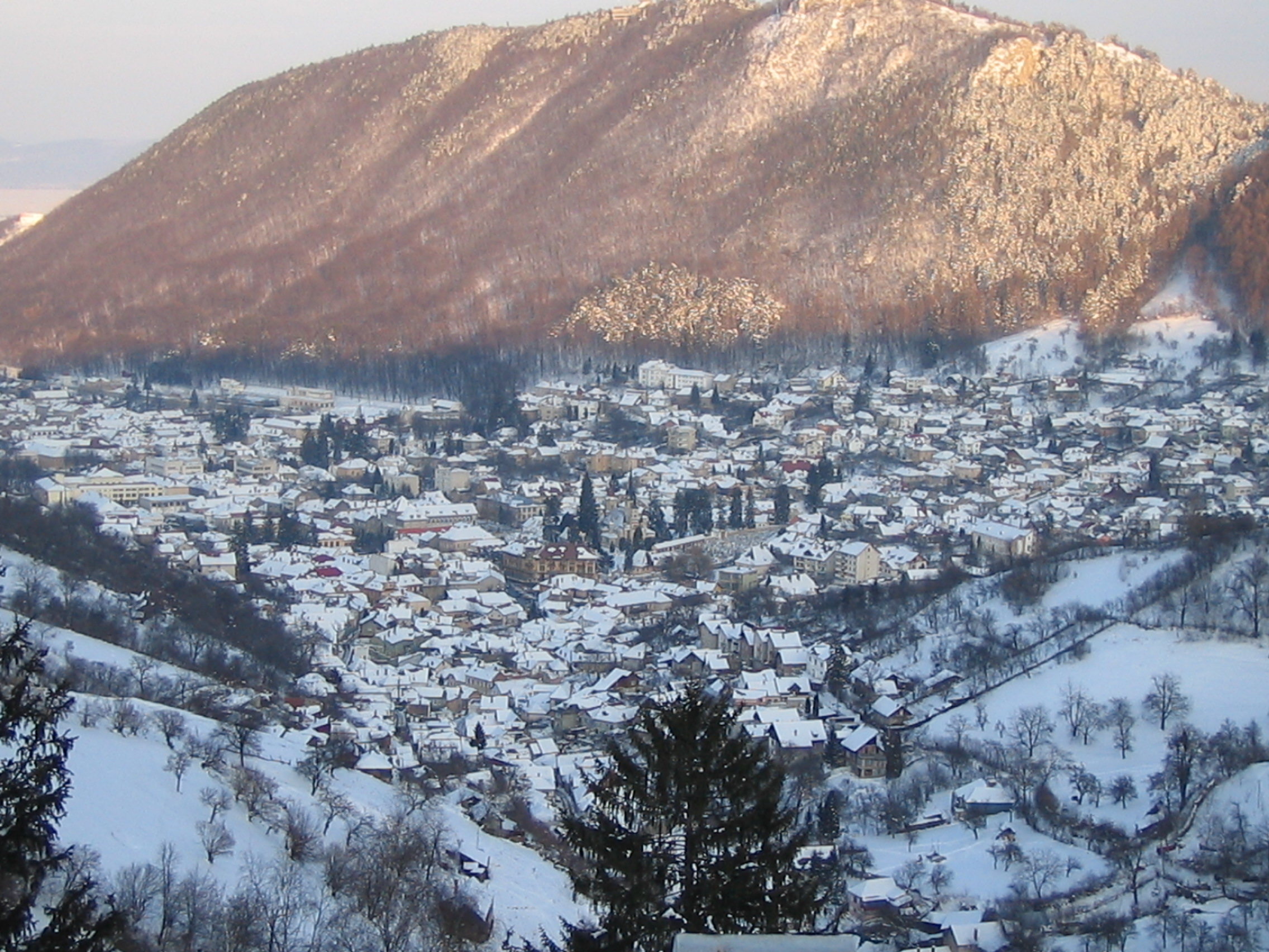 Brasov in winter